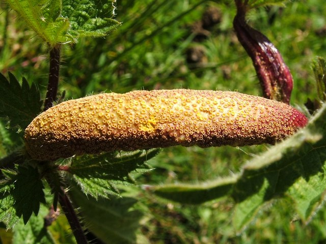 Gall on nettle. This gall is very common on nettles, and can appear on the stem, leaf stalk, leaf, or the (very small and inconspicuous) flowers of the plant. The gall is caused by a fungus, Puccinia urticata ("nettle rust", or "nettle clustercup rust"). Aside from causing obvious swelling, the gall can be seen to be dotted with numerous so-called cluster-cups, which have orange discs and a paler yellow margin; these cups are called "aecia" ("aecium", singular). The rust fungi, of which this fungus is one, have an extremely complex life-cycle. Some of them can produce up to five different kinds of spore; the different spore-producing structures are designated, in the scientific literature, 0 (zero), I, II, III, and IV. Species that produce all five kinds of spore are said to be macrocyclic; those that do not are microcyclic. Puccinia urticata is a macrocyclic rust; two of its five stages are hosted on nettle, while the other three are hosted on a species of sedge. As "British Plant Galls" (Redfern, Shirley & Bloxham; 2002) states, "it seems likely that, amongst all living things, the rust fungi have the most complex life cycles and nuclear arrangements". The cluster-cups shown here produce asexually-formed "aeciospores" (stage I of the life-cycle); inspection through a hand-lens will often show that some of these discs have a yellow powdery mass adhering to them, made up of spores that have emerged from the discs. This specimen was on a plant growing beside the path shown in 916482.